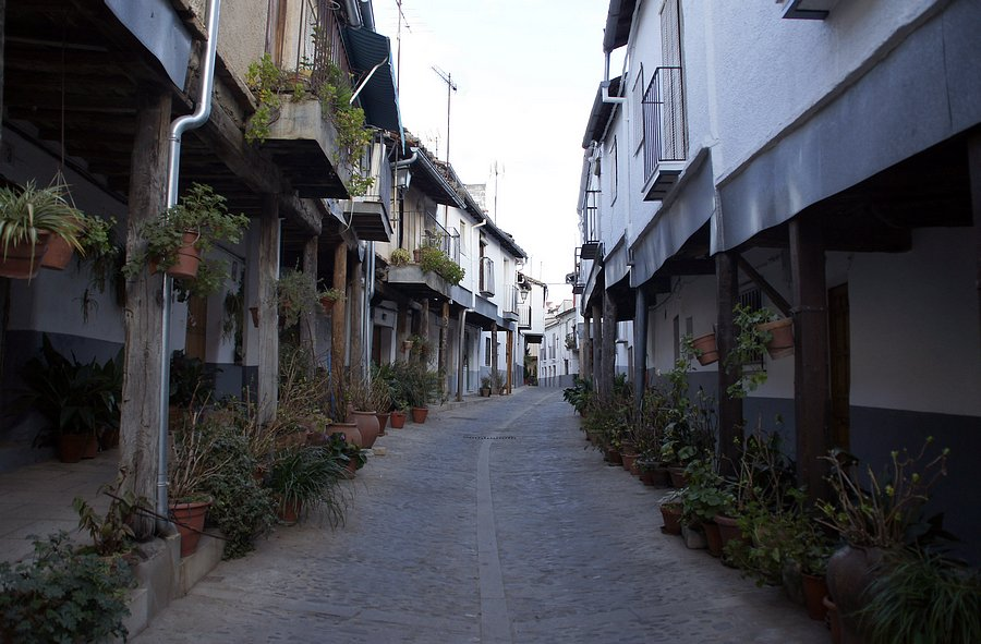 Antigua judería